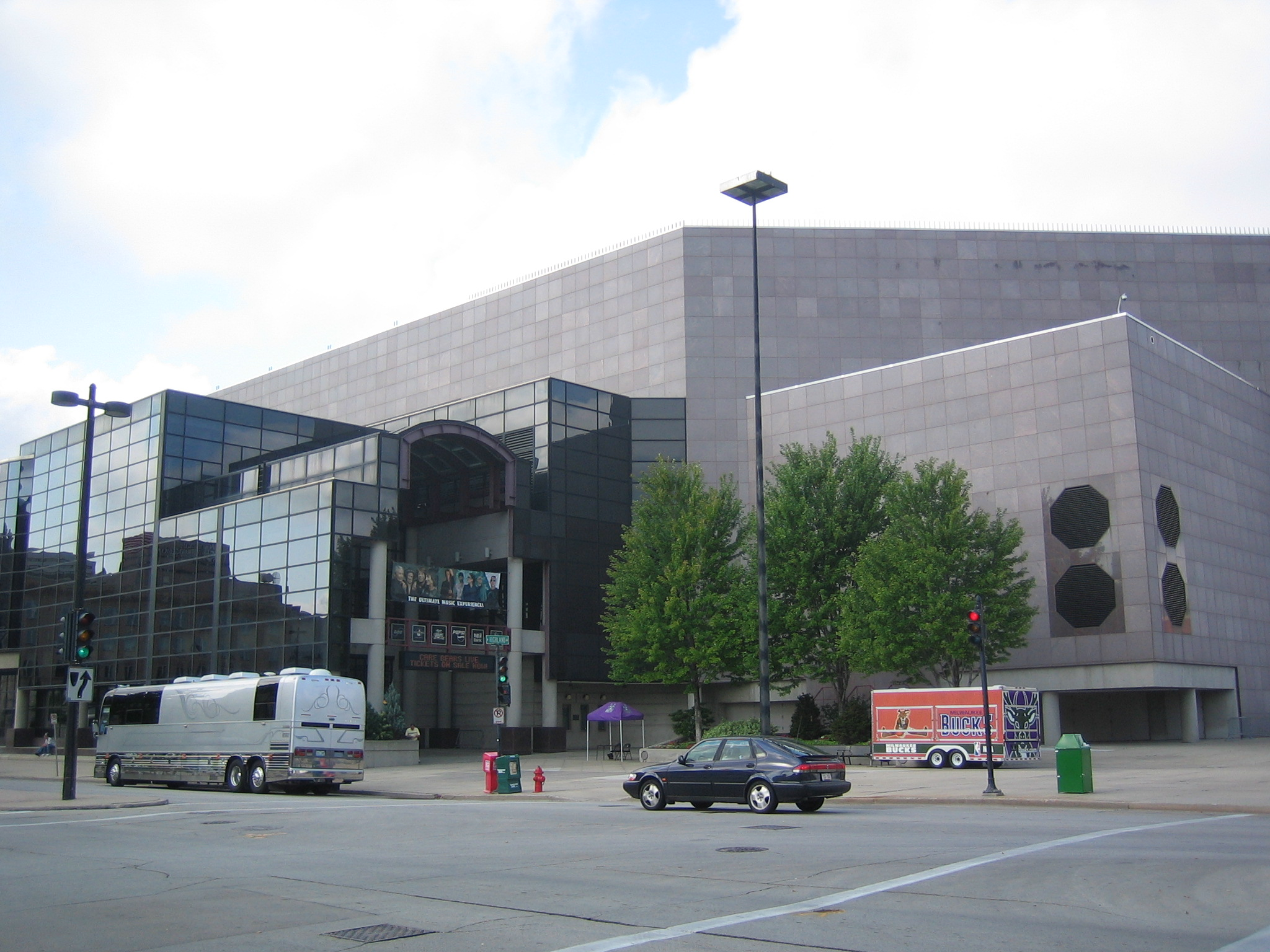 A shot of the Bradley Center in Milwaukee.